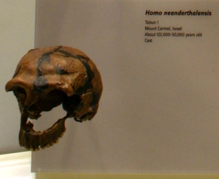 Tabun 1. Mt. Carmel. Israel. Homo neanderthalensis. Taken at the David H. Koch Hall of Human Origins at the Smithsonian Natural History Museum.